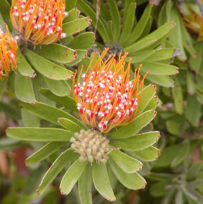 Photo of Leucospermum erubescens at the San Francisco Botanical Garden